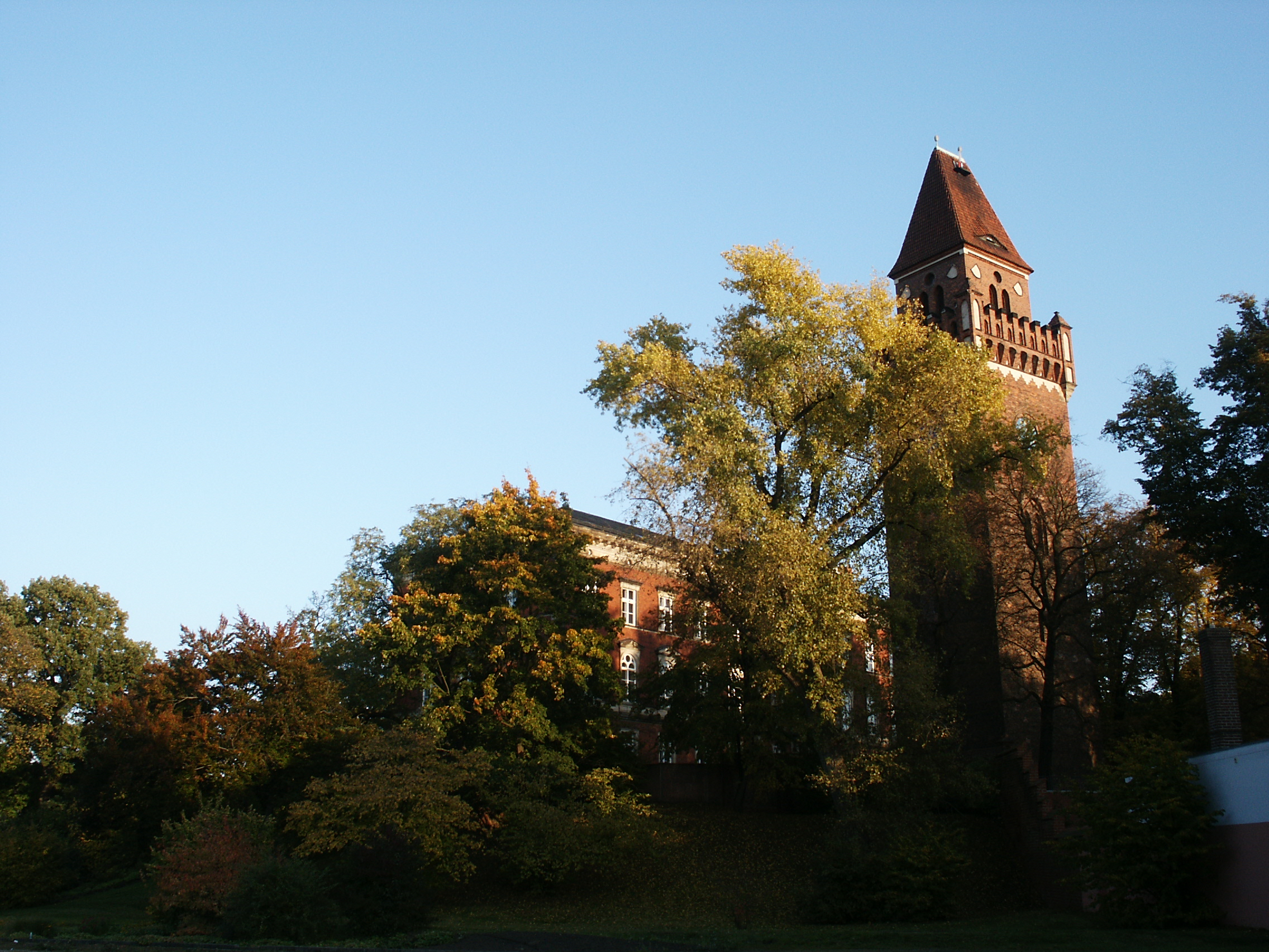 Castle-tower in the city centre of Cottbus.